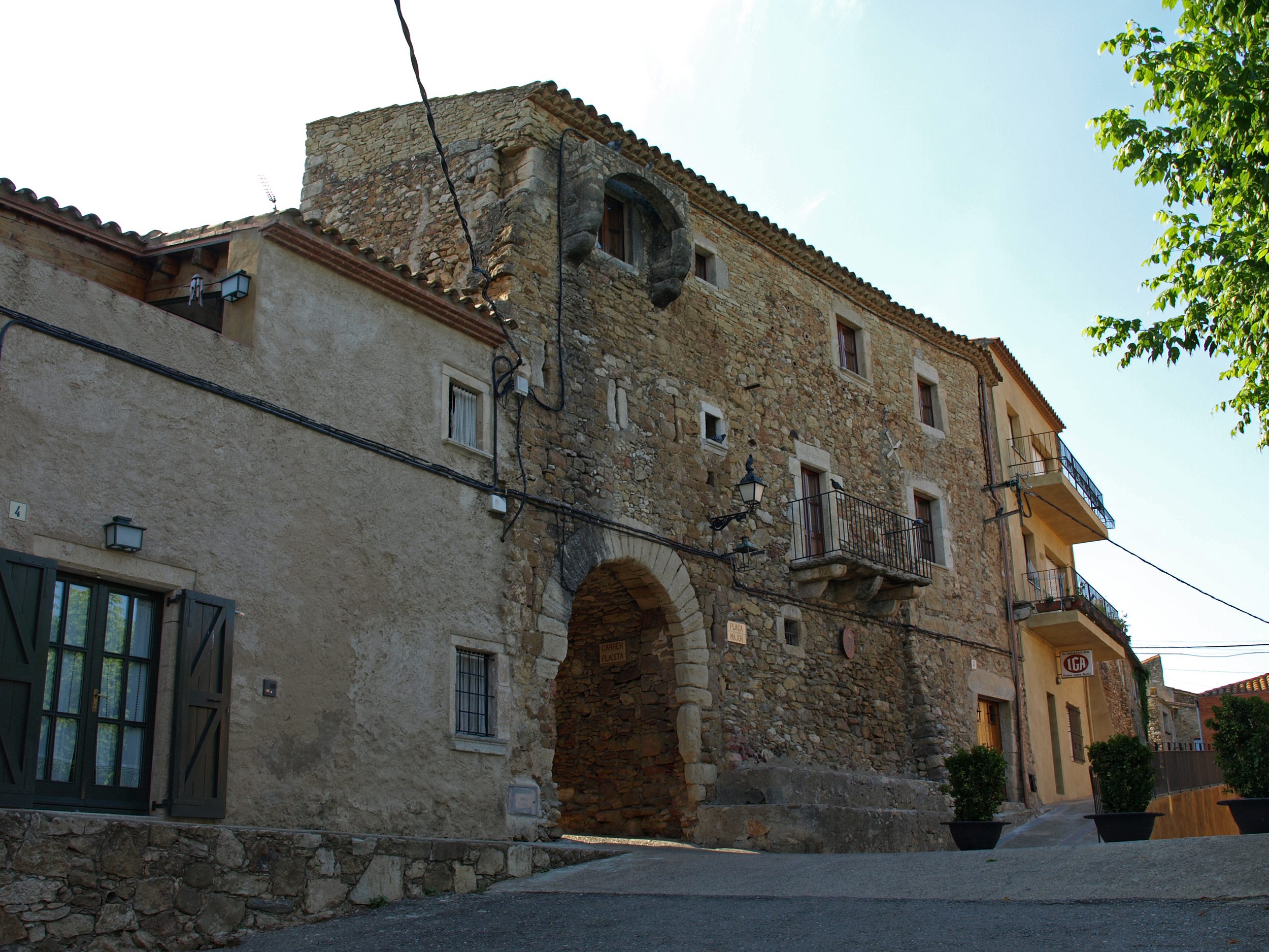 Torrent, municipality of Girona, Spain - Castle of Torrent, 1337